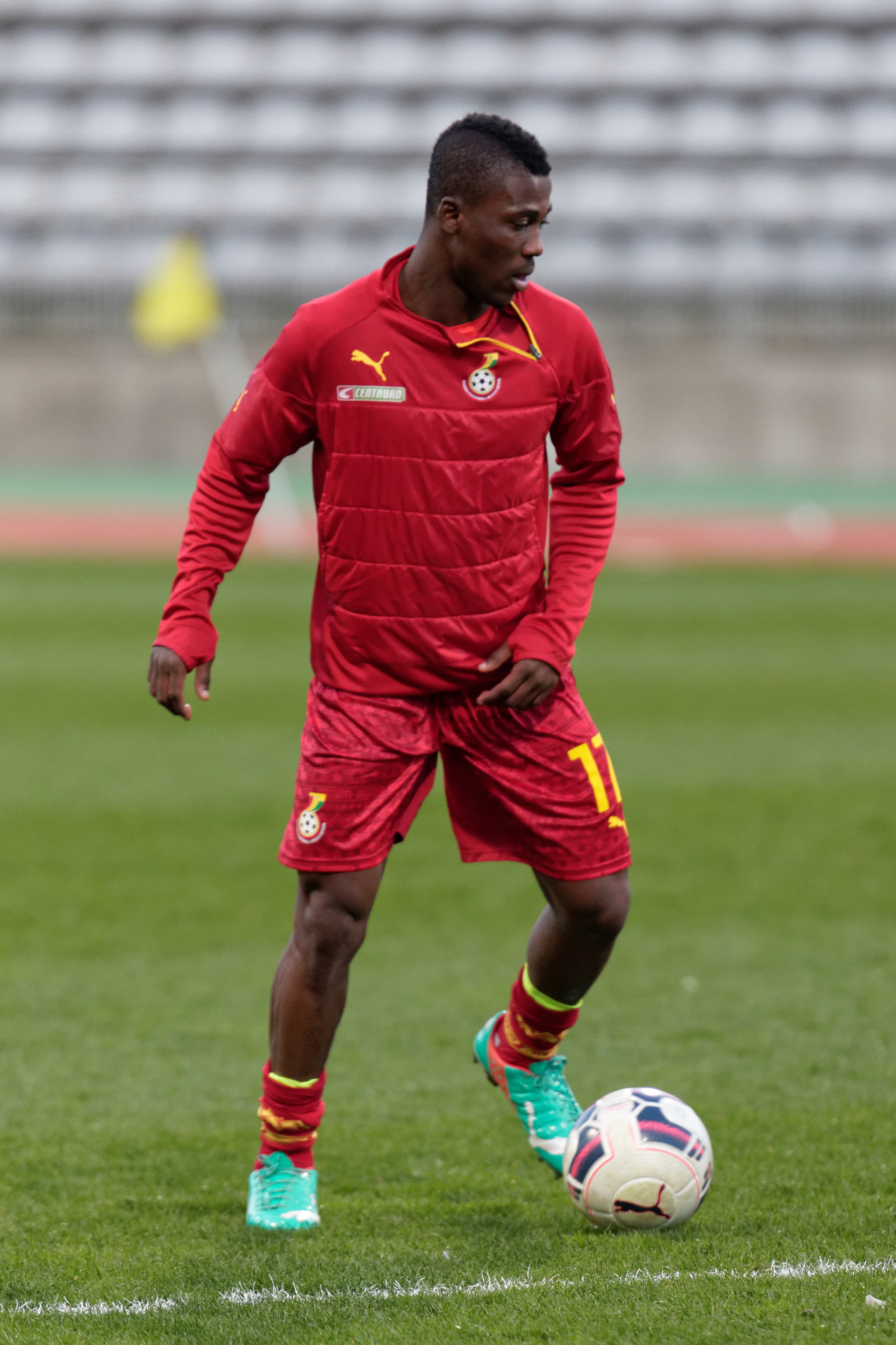 Mali vs Ghana, exhibition game at Paris, 31st March 2015.